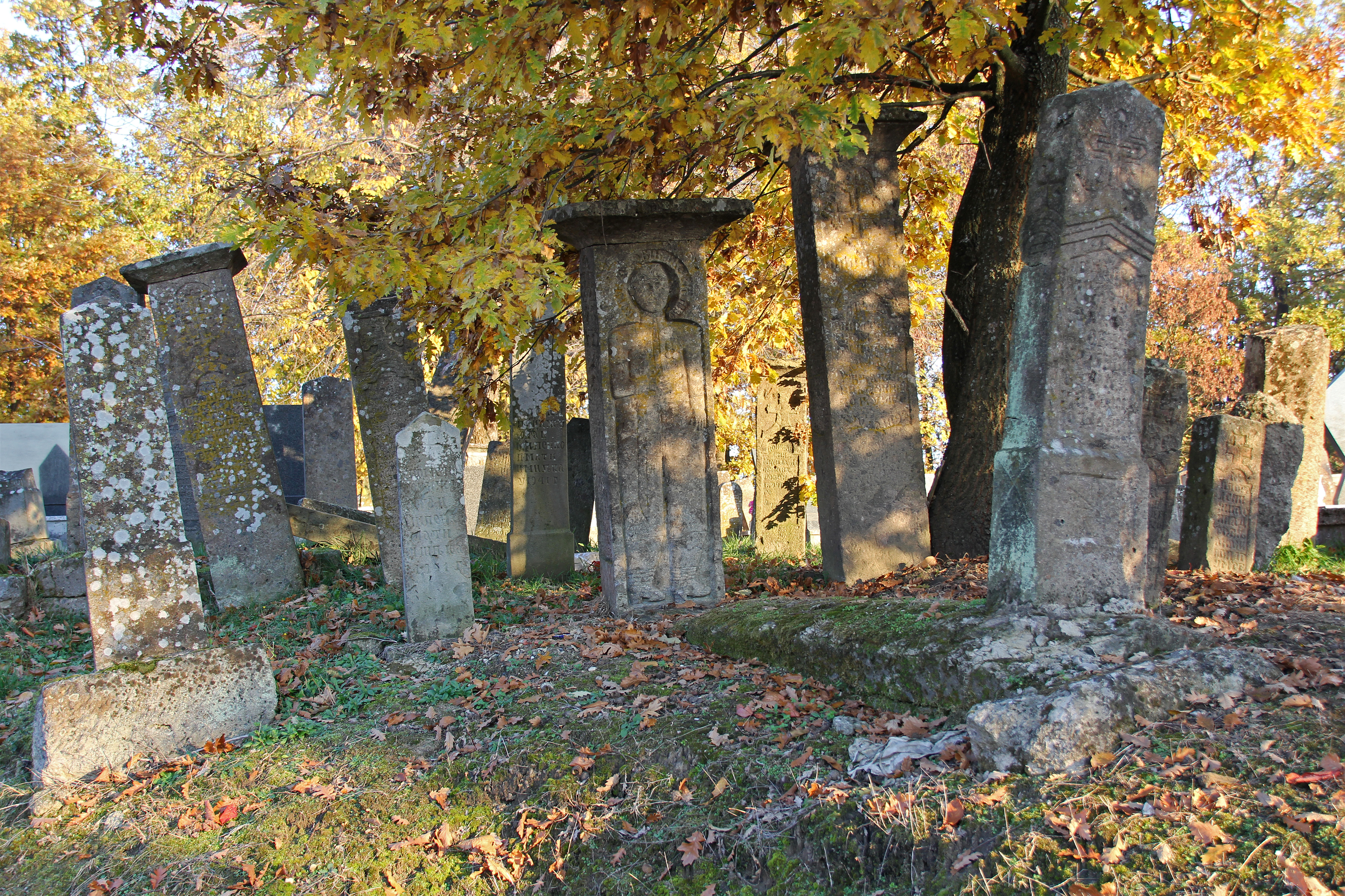 Old gravestones at the cemetery in the village of Donji Branetici (the municipality of Gornji Milanovac), Serbia.